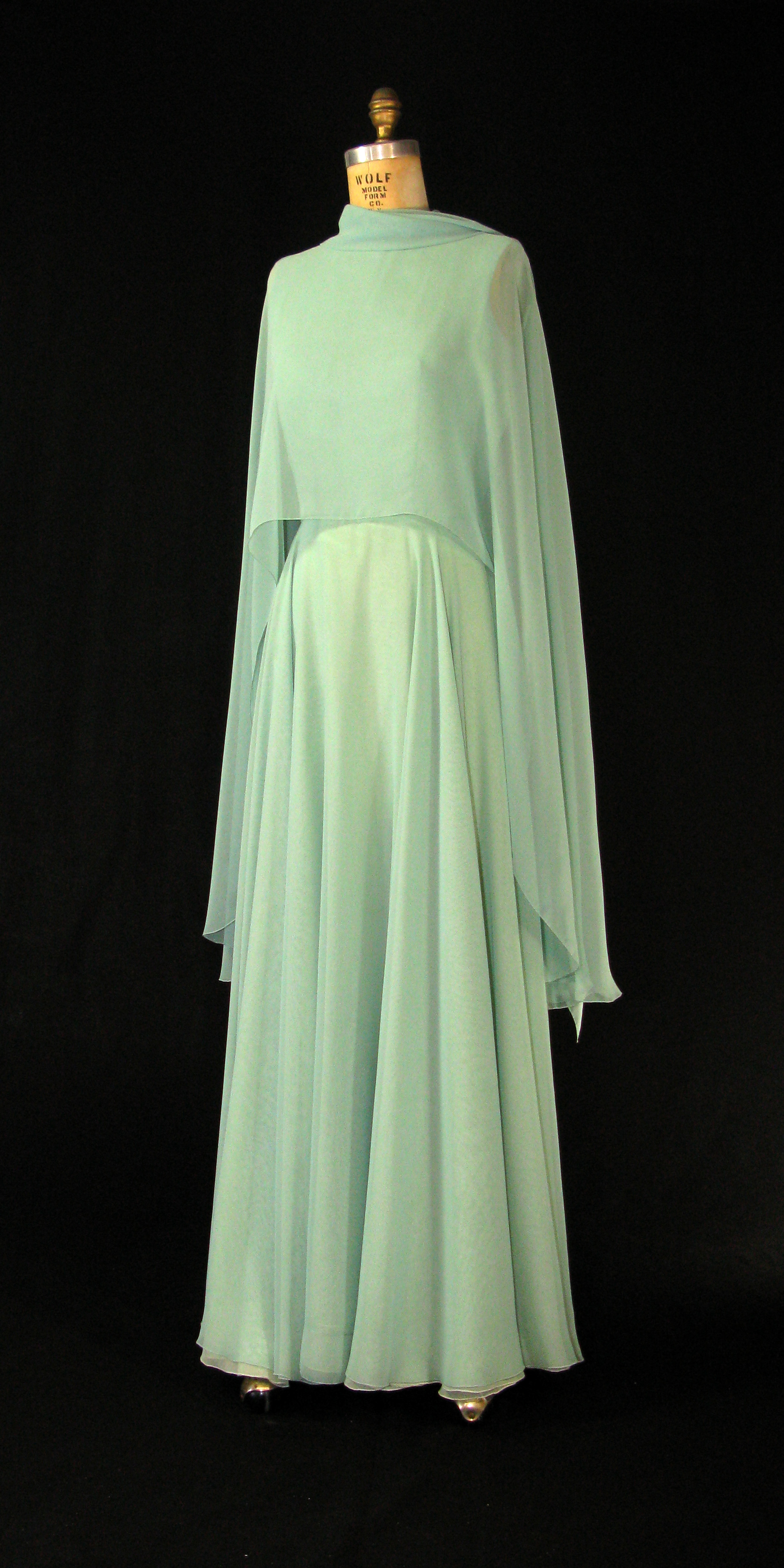 A chiffon gown with cape designed by Albert Capraro for First Lady Betty Ford. The floor-length, aqua, chiffon gown features a high neck, a zipper up the back, hooks at the waist, and an attached cape. A chiffon scarf is also included with this sleeveless dress.